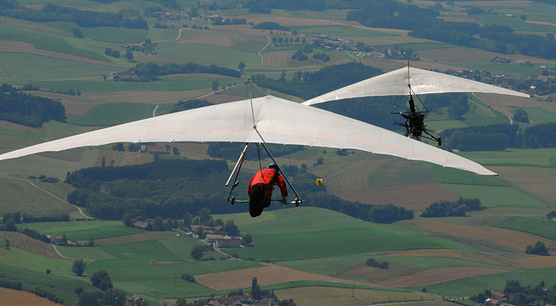 Hang glider being towed by a trike